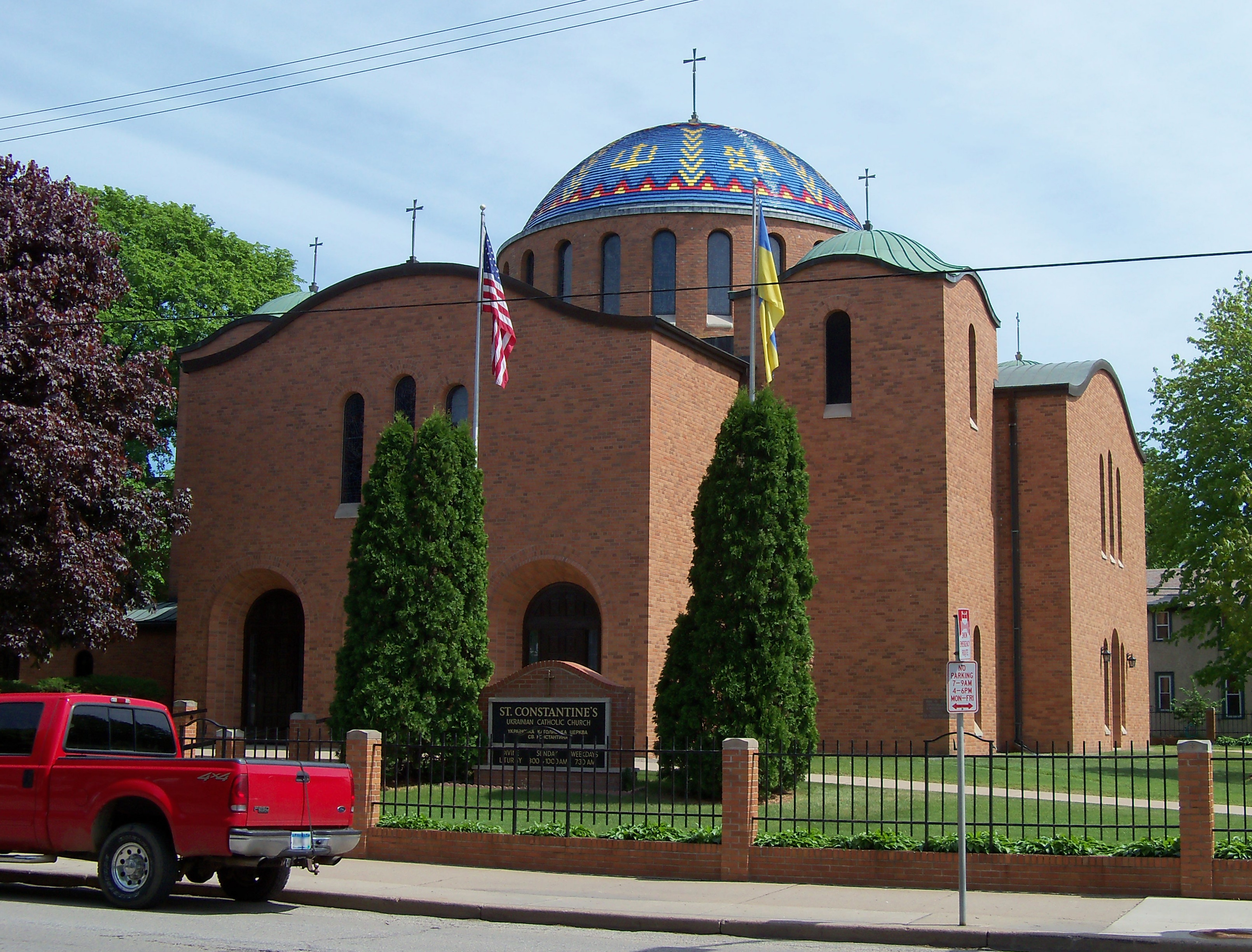 St. Constantine's Ukrainian Catholic Church in Minneapolis, Minnesota, USA.